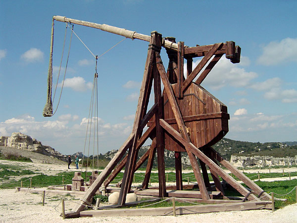 Trebuchet at Château des Baux, France (reconstruction) - author: ChrisO